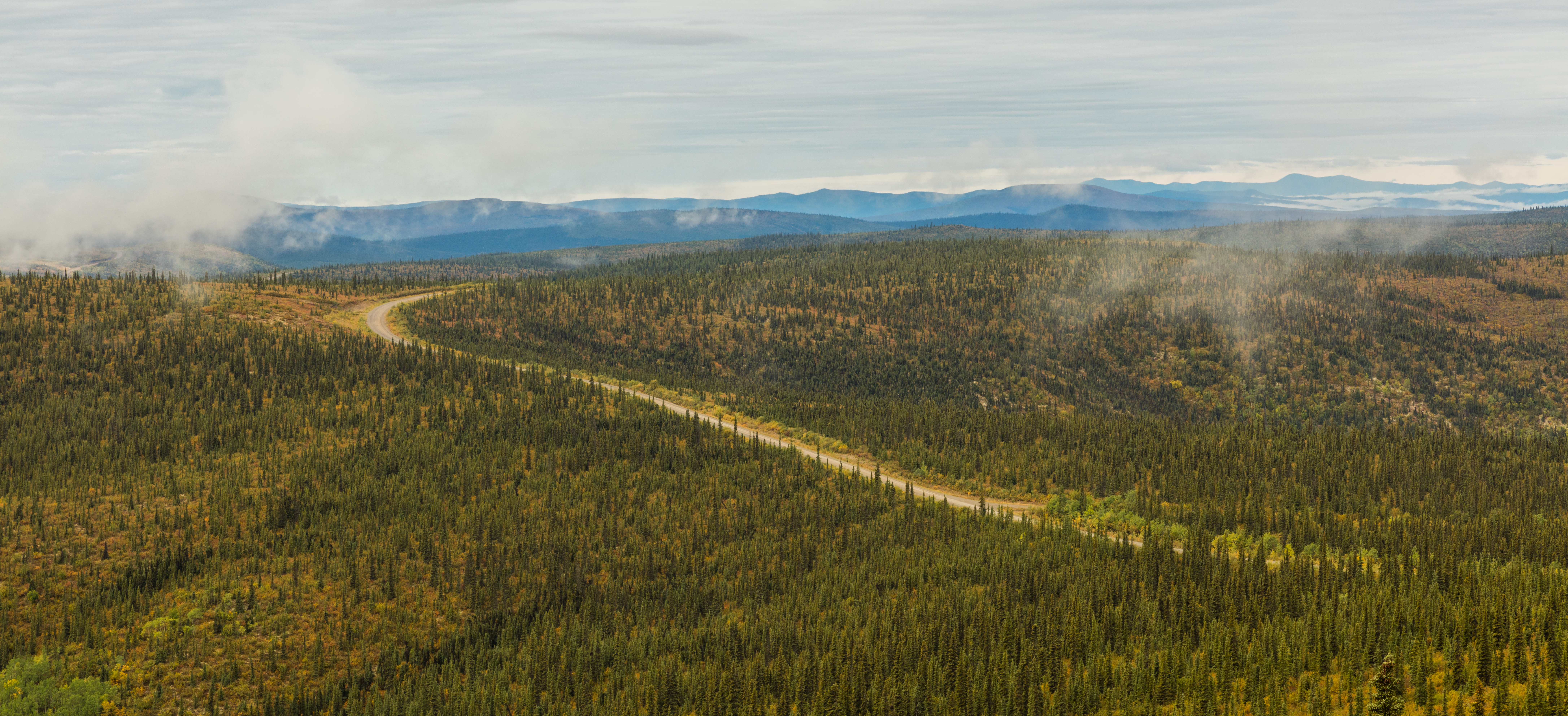 View from the Top of the World Highway, Yukon, Canada